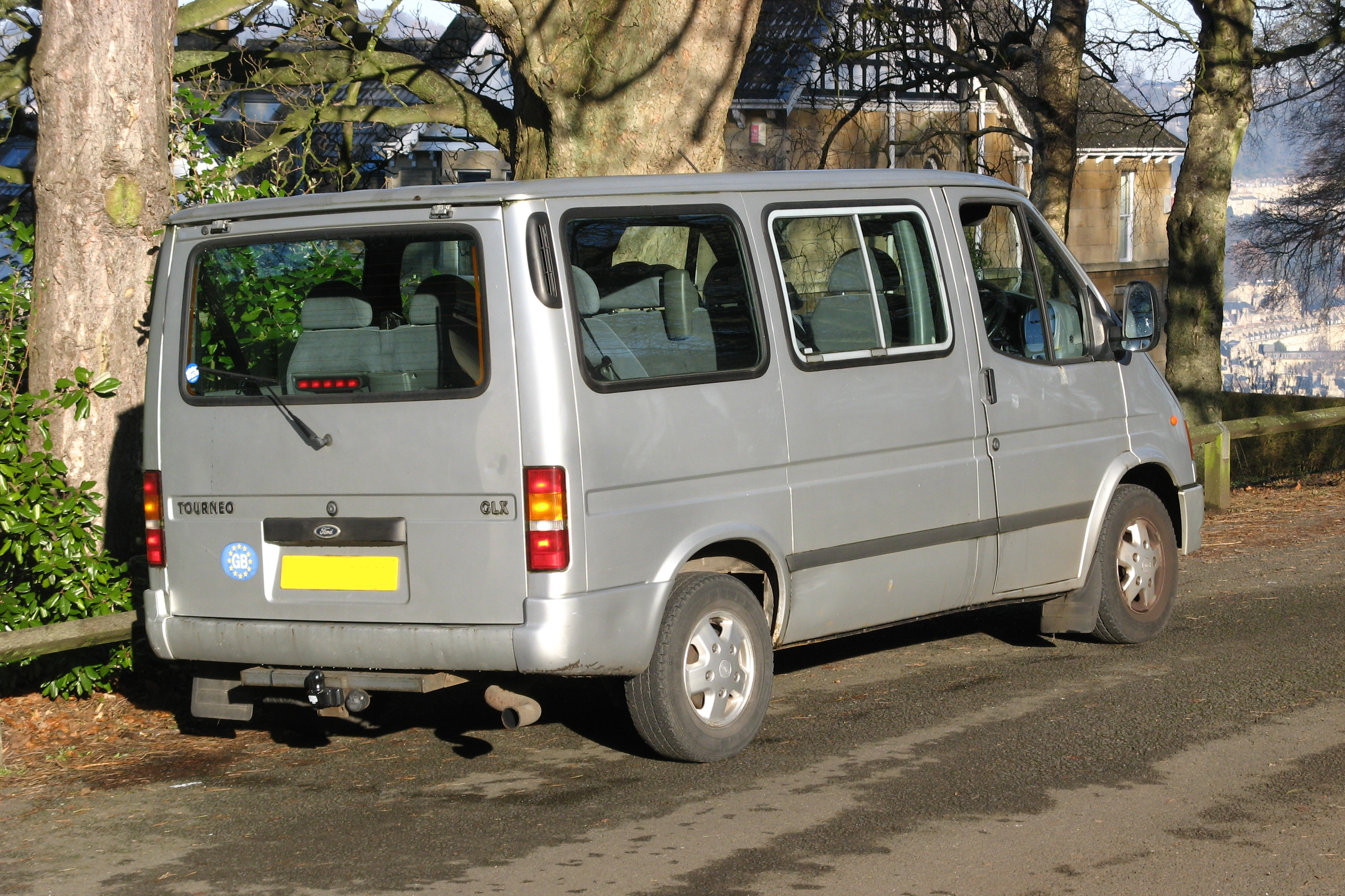 A Ford Tourneo GLX, 8 seat version, based on the Mark 5 Ford Transit (1994). This silver Tourneo was registered in 2000, photographed ten years old in 2011, in Alexandra Park, Bath, England. The towbar is not a standard Ford option. The right rear mudflap is missing. This vehicle had air-conditioning and the supply pipe for the rear can be seen by the window behind the driver's seat.